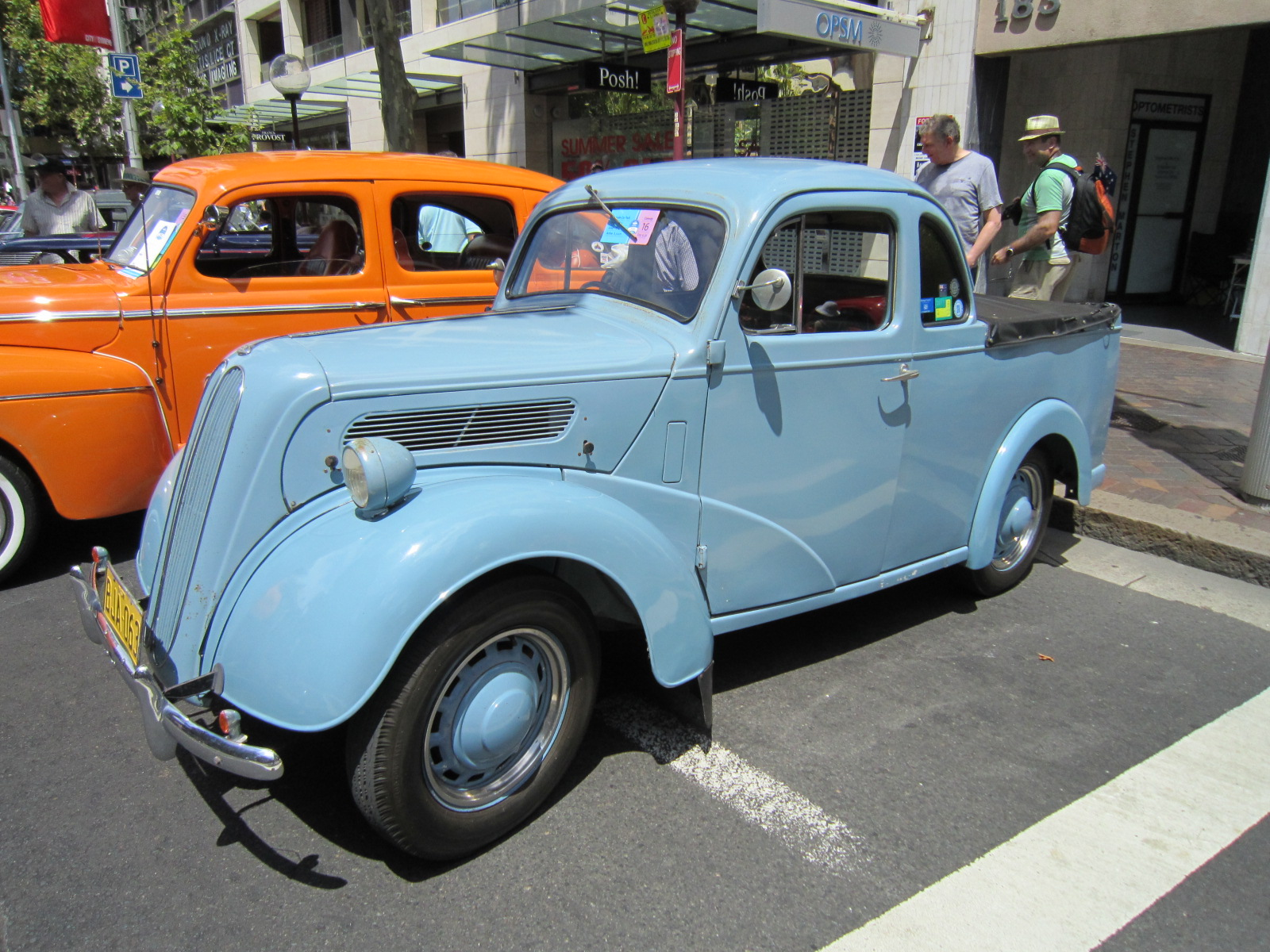 Ford Popular Coupe Utility (103E)